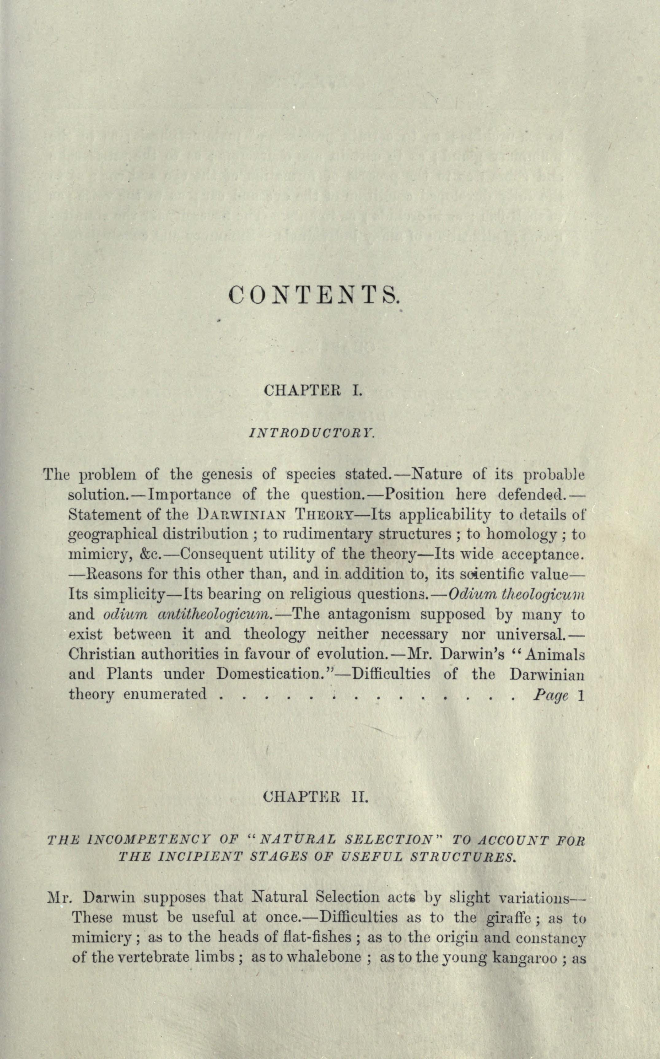 On the genesis of species / by St. George Mivart.